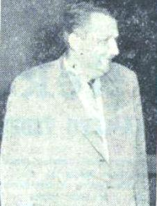 Roman Albreht (1921-2006), Slovene journalist and politician